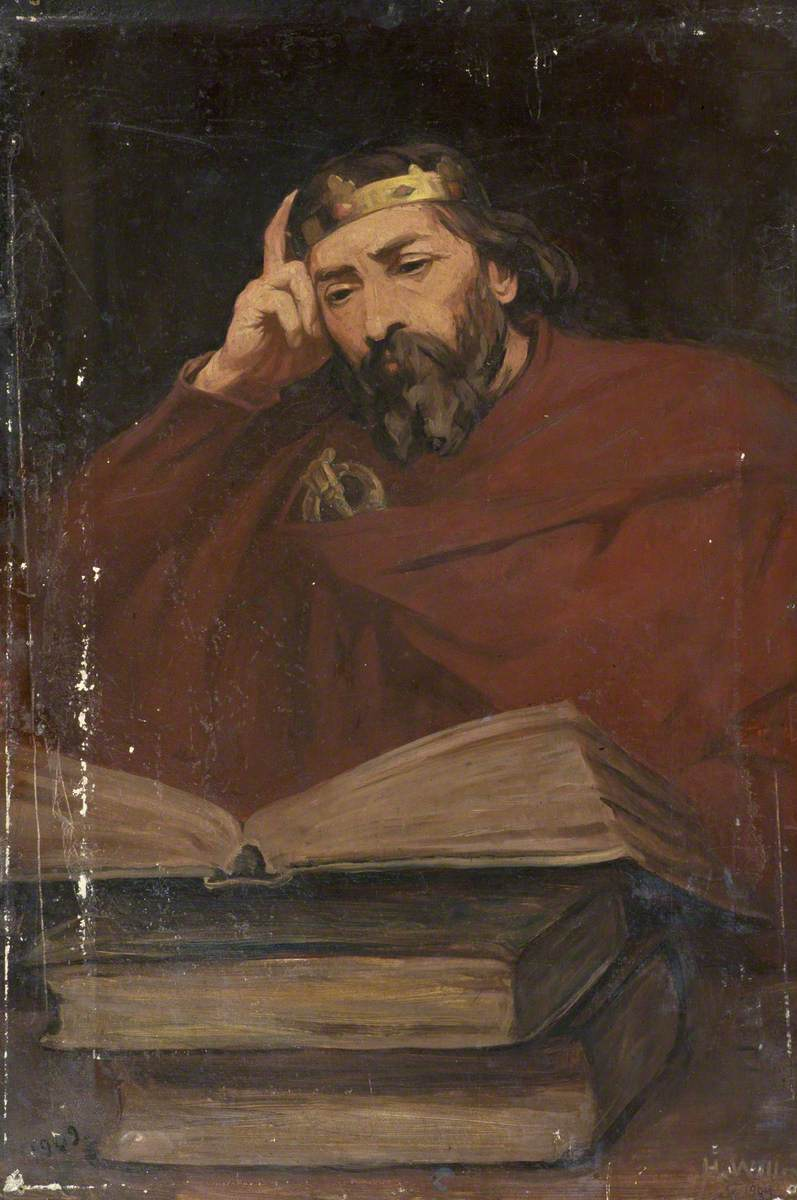 Artists impression of King Hywel Dda